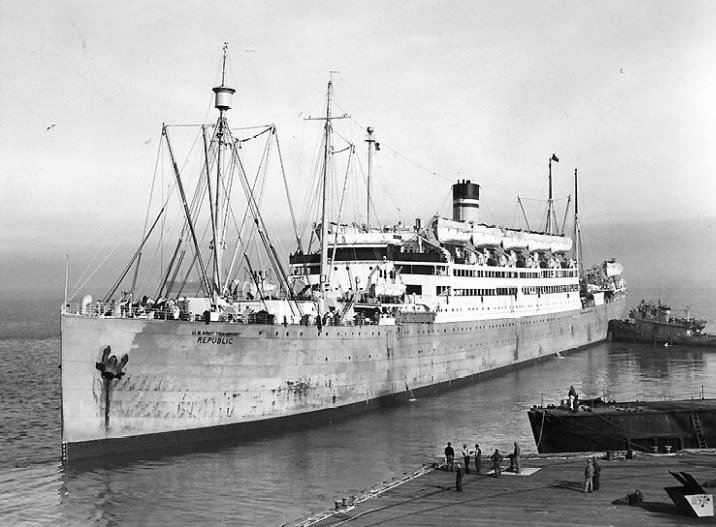 USAT Republic (previously USS Republic (AP-33)) leaving San Francisco Navy Yard, Hunter's Point, after a post-World War II overhaul